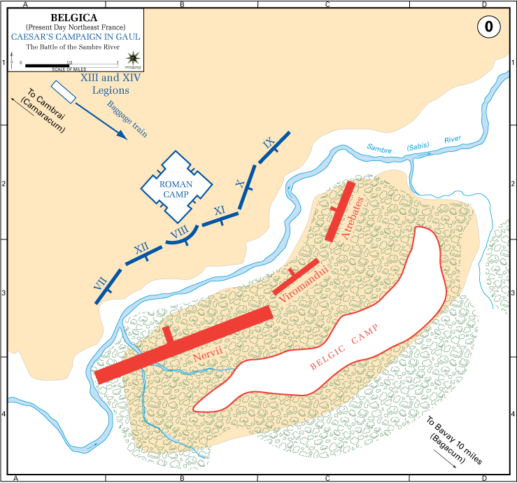 Battle of the Sambre River- from History Department, US Military Academy